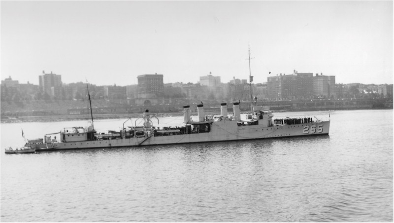 New York City August 3 1940. Naval Historical Center photo NH66796.